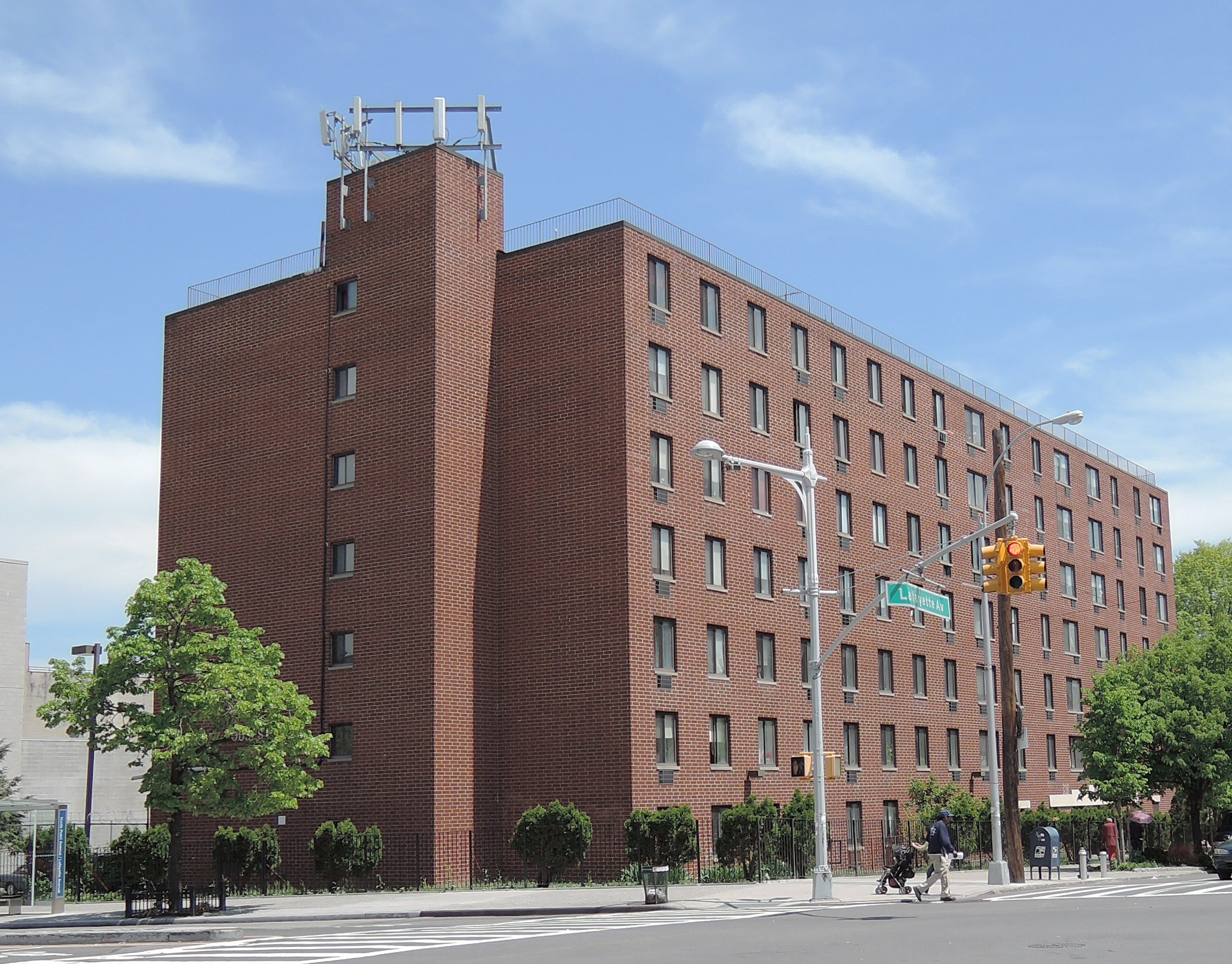 Looking northeast across Lafayette Avenue at housing on a sunny midday.